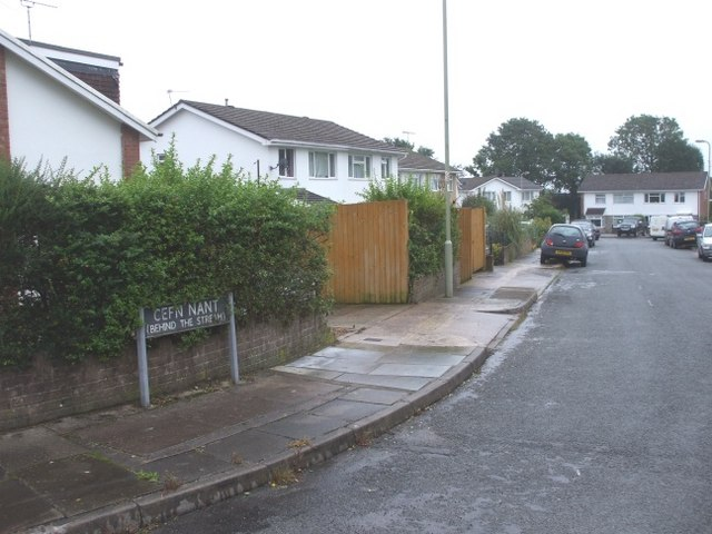 Cefn Nant, Pencoed